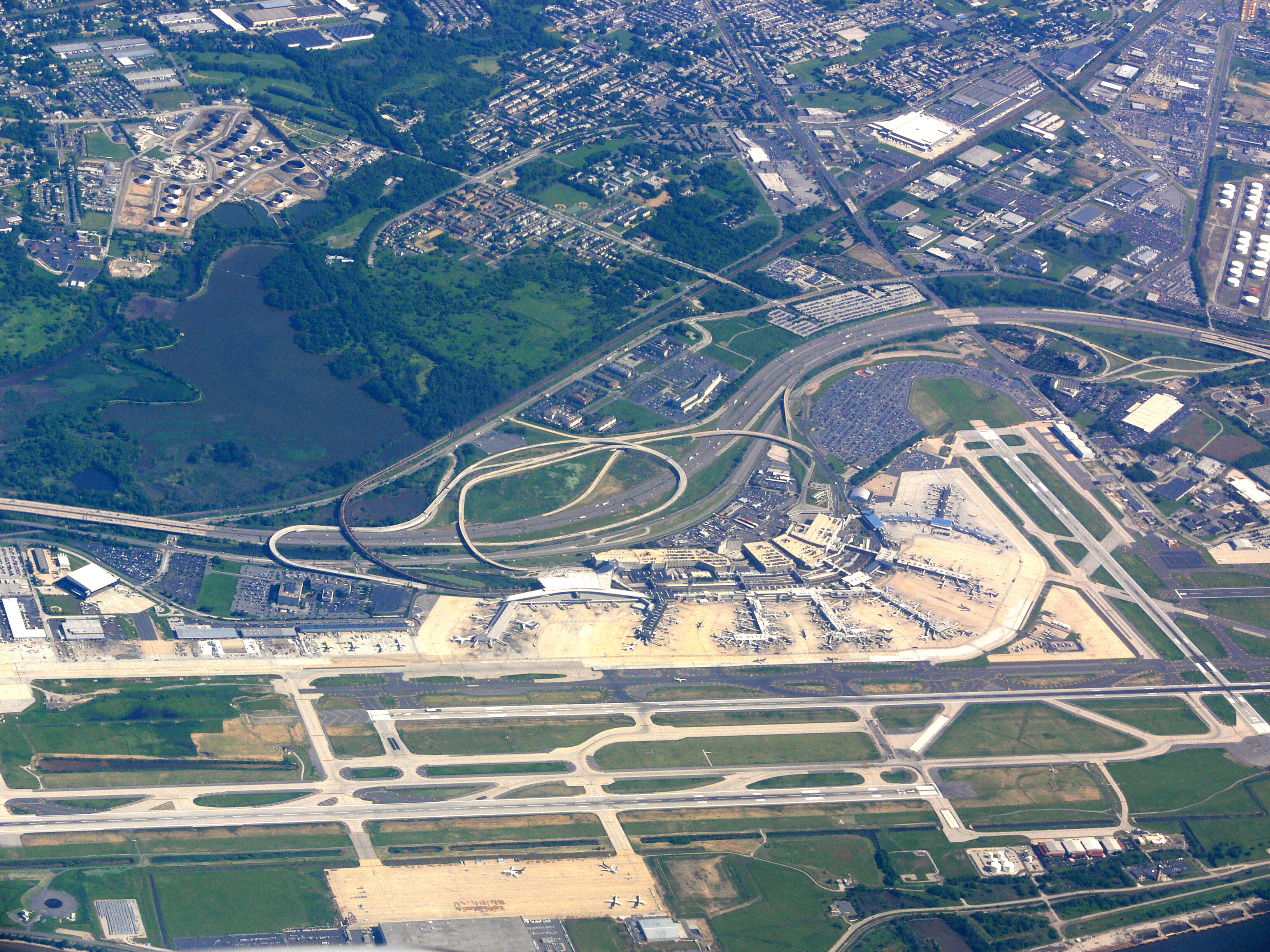 Aerial photograph of Philadelphia International Airport